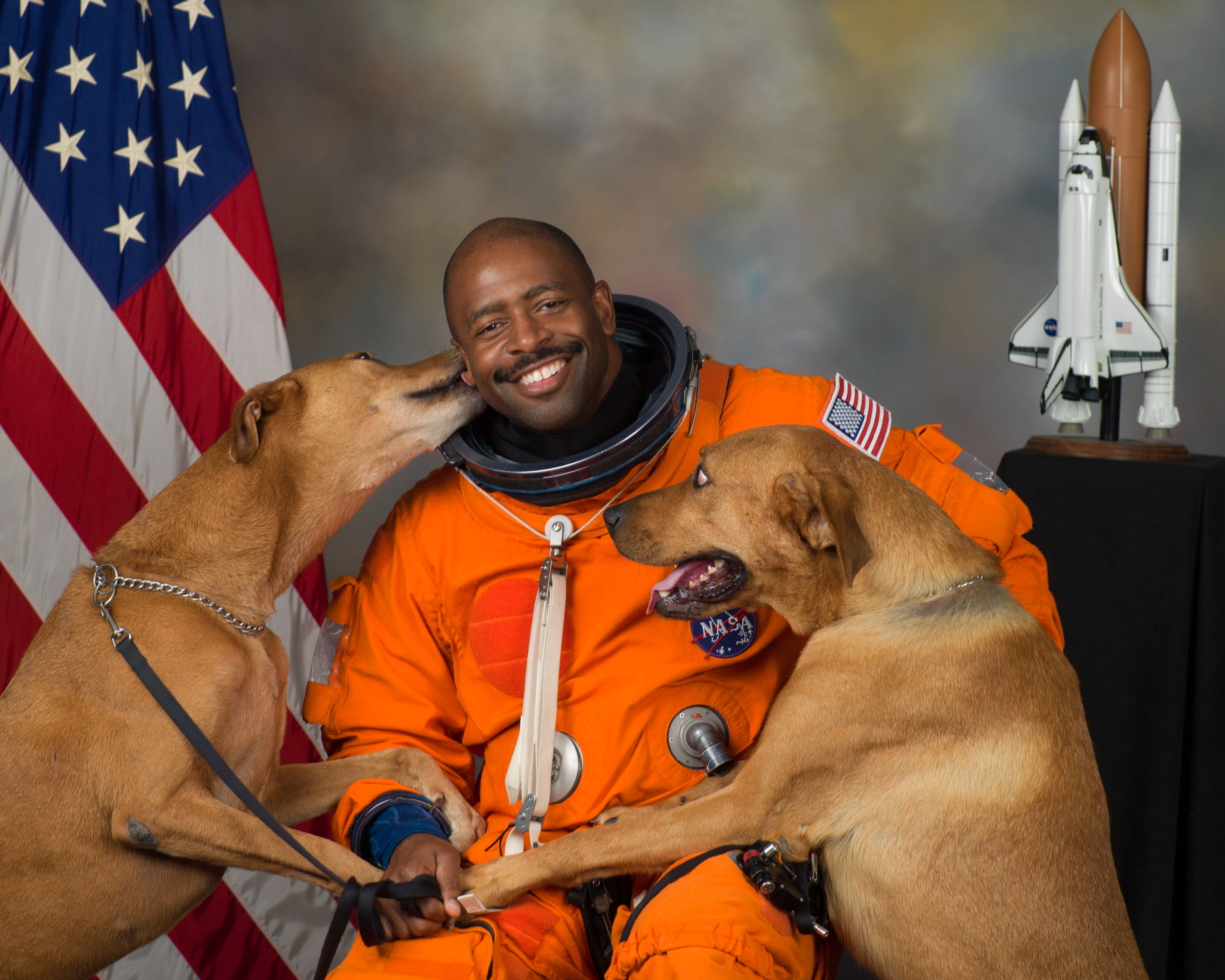 Caption from source: "Leland's now-famous NASA portrait featuring his two rescue dogs, Jake and Scout, who he secretly smuggled into NASA for the photoshoot."